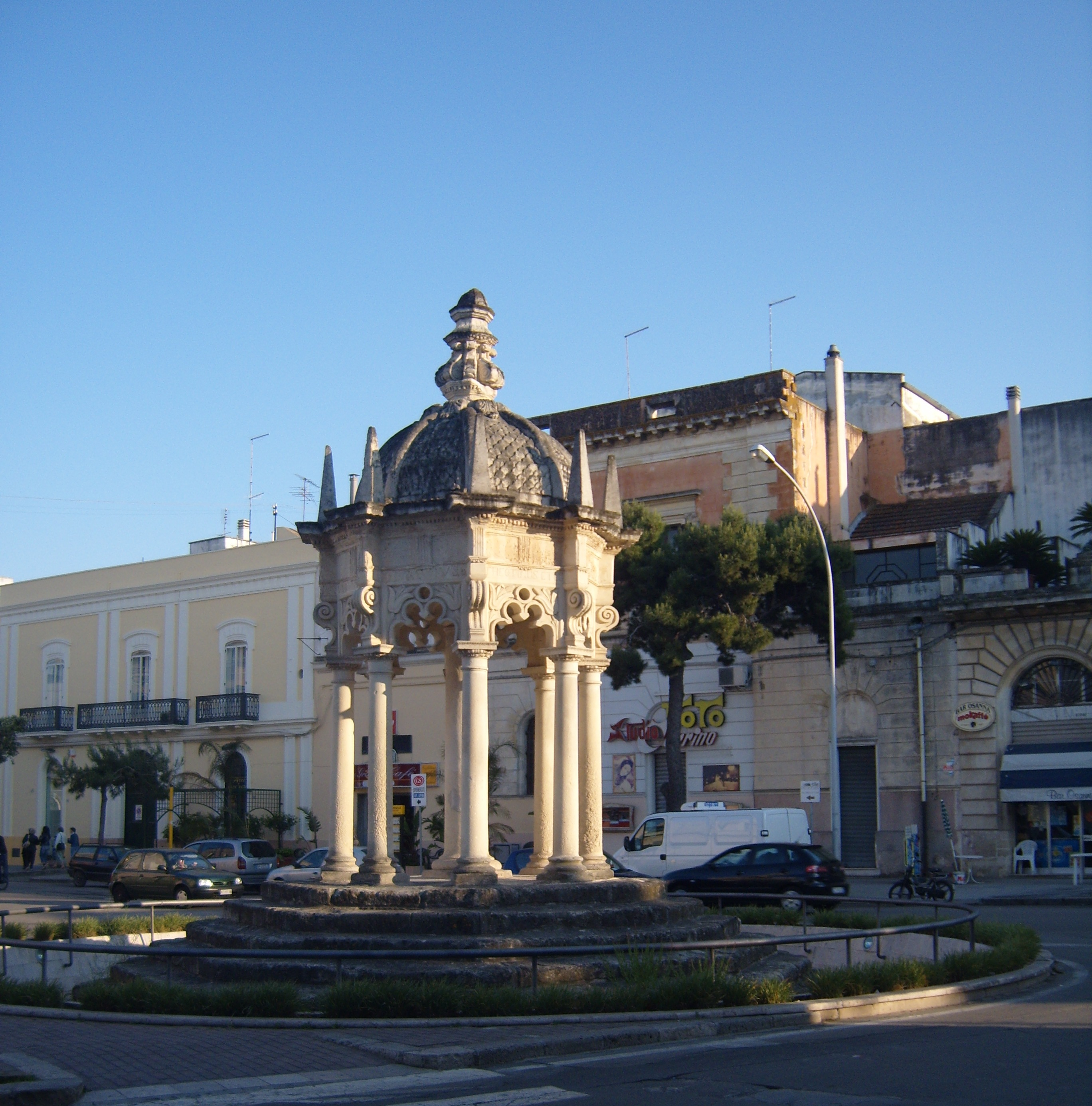 L'Osanna temple in Nardò, Province of Lecce - Apulia (Italy)